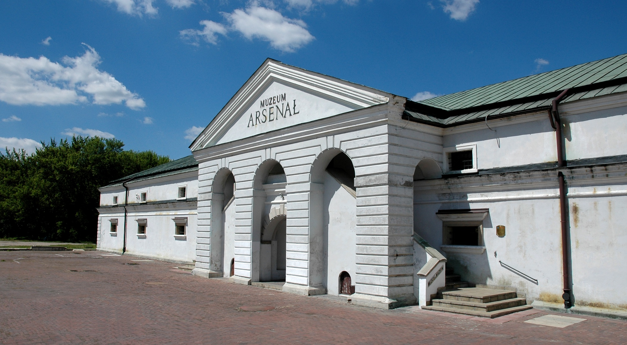 Arsenal Museum in Zamość